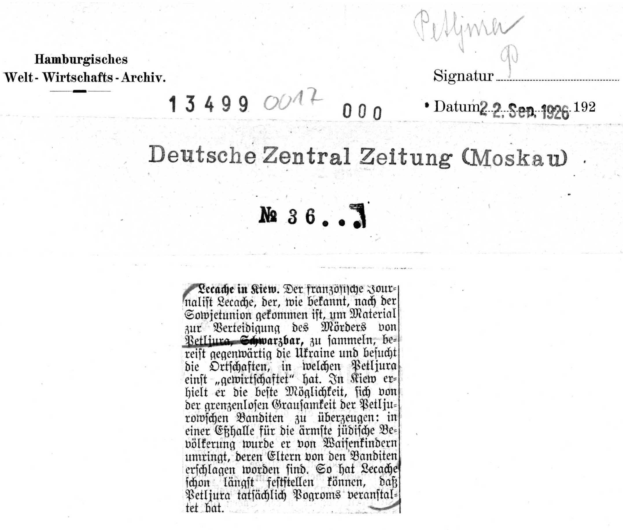 Article from Moscow-based German-language newspaper published by the German section of the Communist International. The article is titled, "Lecache in Kiev". It reads, "The French journalist Lecache, who, as is known, has come to the Soviet Union to gather material to defend Schwartzbard, the murderer of Petliura, is currently traveling in the Ukraine and visiting the locales in which Petliura once "kept house". In Kiev, he obtained the best possibility to convince himself of the boundless brutality of the Petliurian bandits: in a dining hall for the poorest Jewish populace, he was surrounded by orphans, whose parents were slain by the bandits. Thus, Lecache was finally able to ascertain that Petliura actually had organized pogroms."